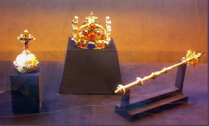 Czech crown jewels (a copy)